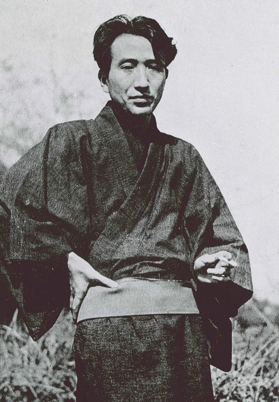 Osamu Dazai in Mitaka, Tokyo.Probably this photograph is the most famous in his photograph.